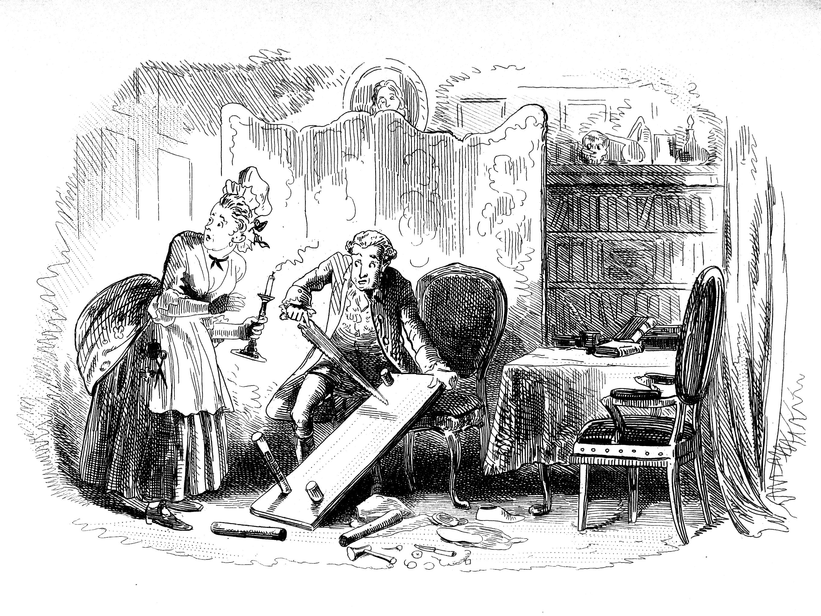 A photograph of an engraving in The Writings of Charles Dickens volume 20, A Tale of Two Cities, titled "The Accomplices".